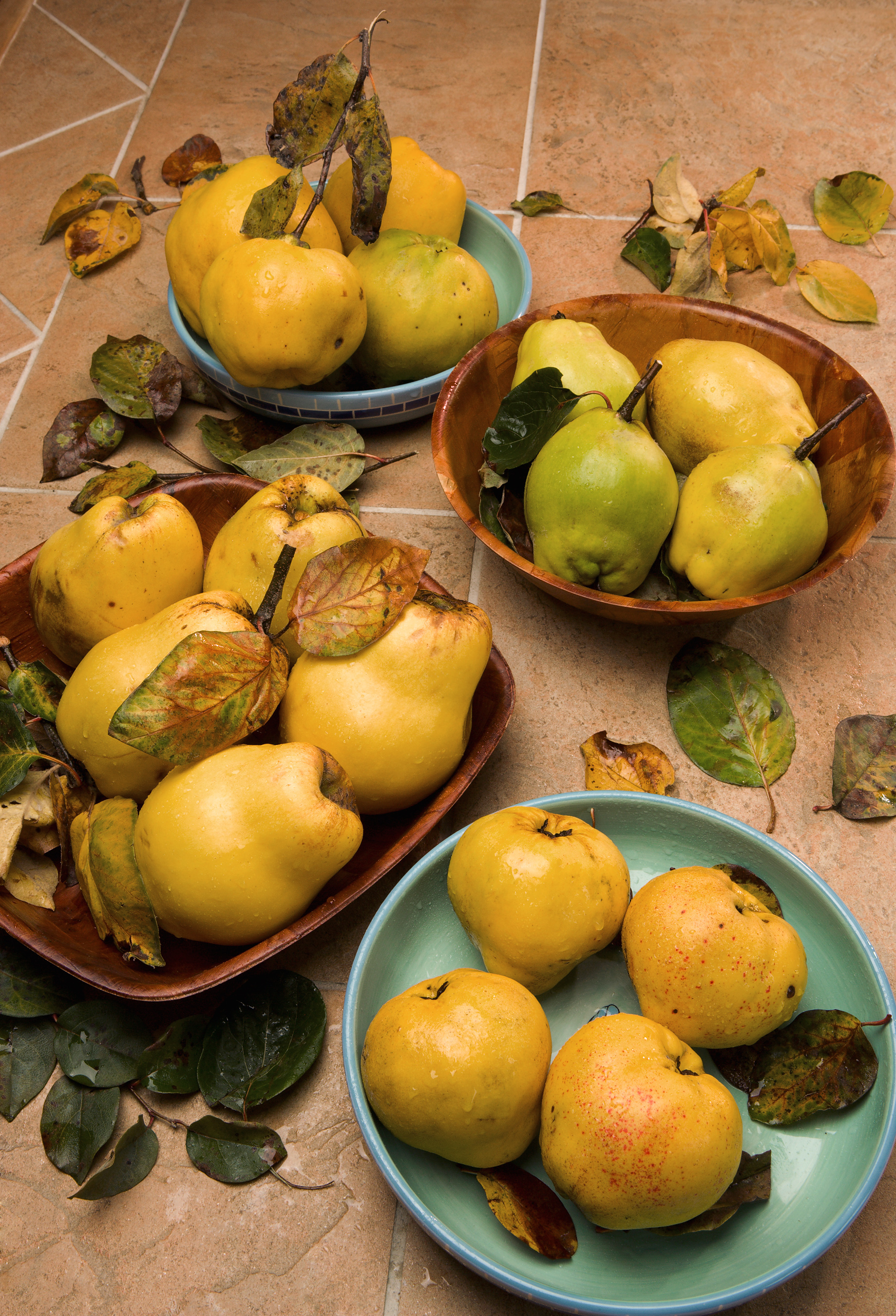 Assorted quince varieties from the germplasm collection at the USDA-ARS National Clonal Germplasm Repository in Corvallis, Oregon. From top down, Van Deman, Cooke’s Jumbo, Ekmek, and Quince A, a rootstock variety used for grafting pears.